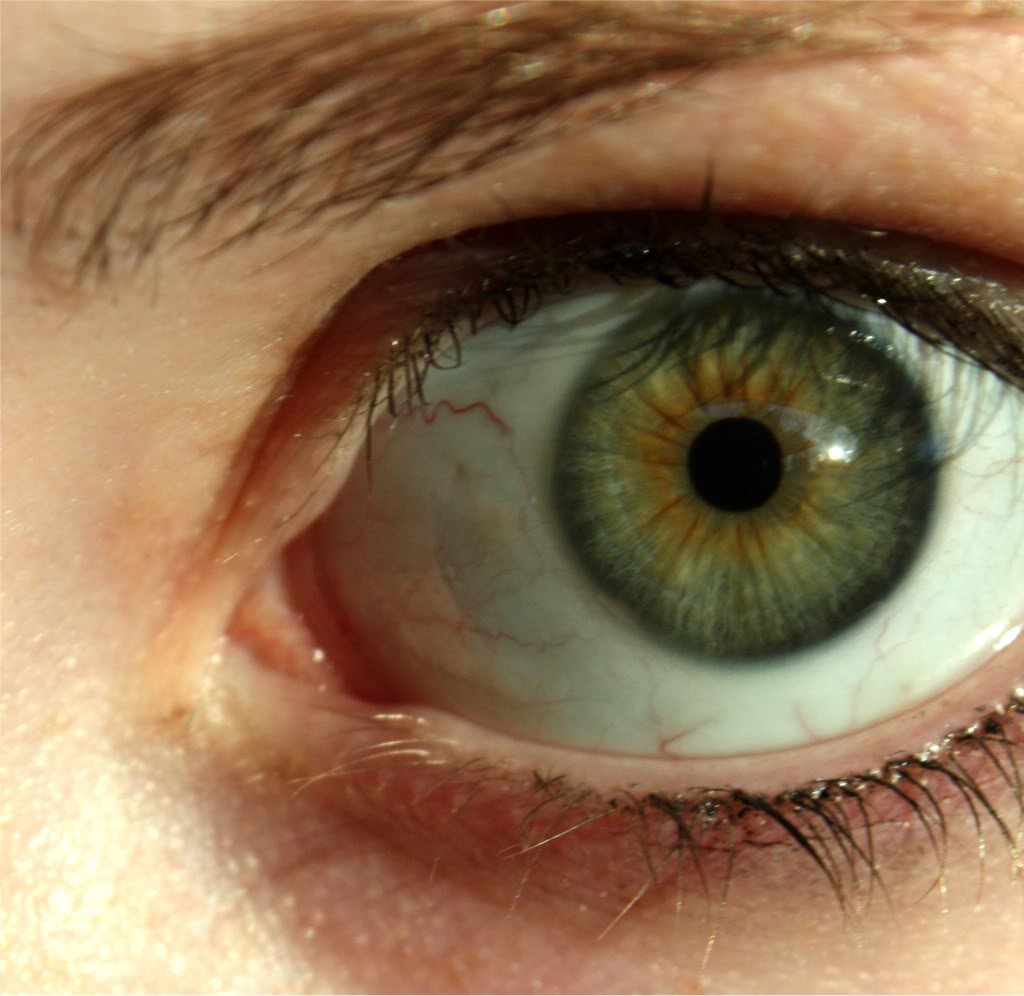 Green Eye containing Central Heterochromia (Forest Green)